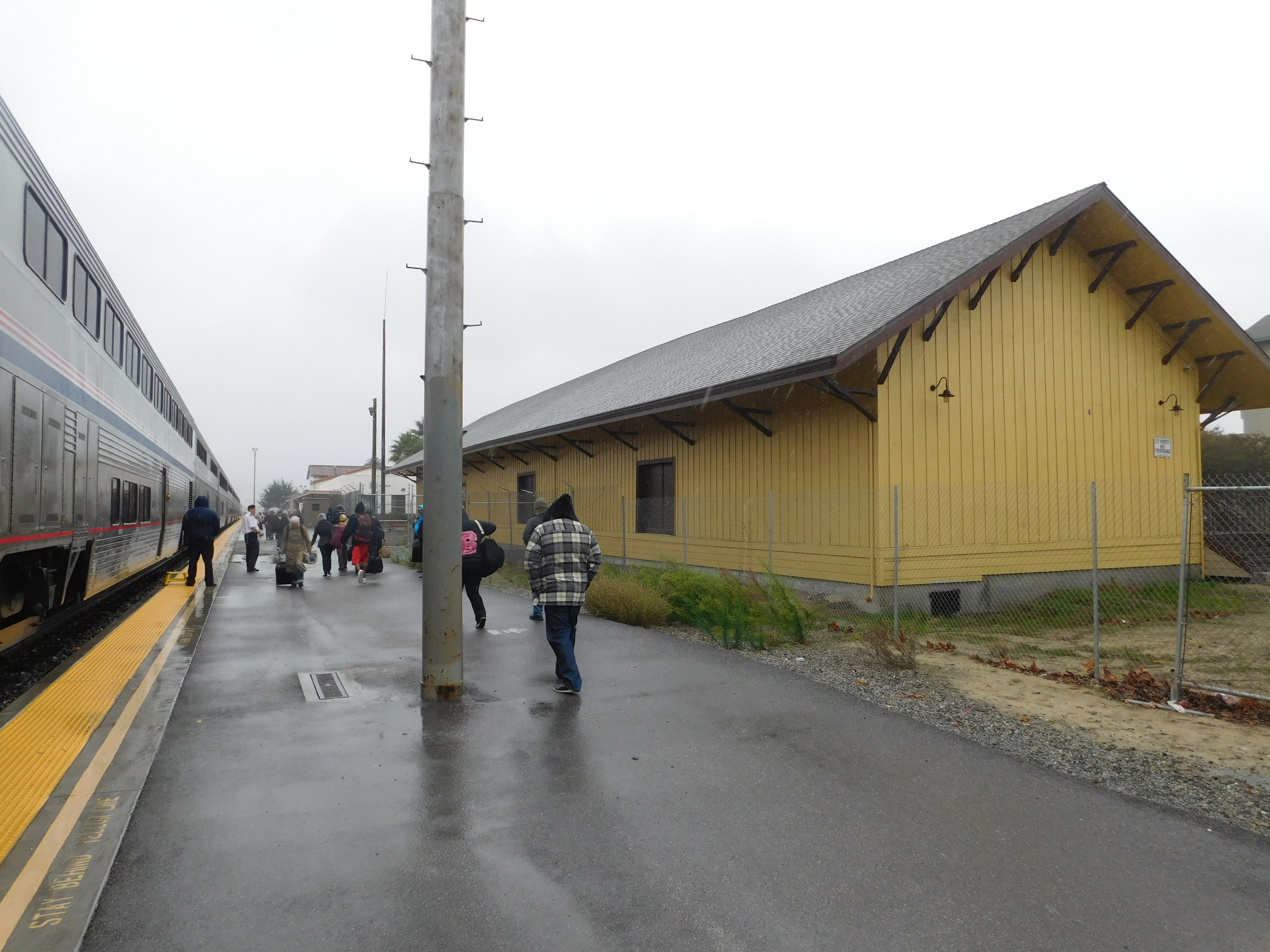 Salinas Amtrak station in Salinas, California.